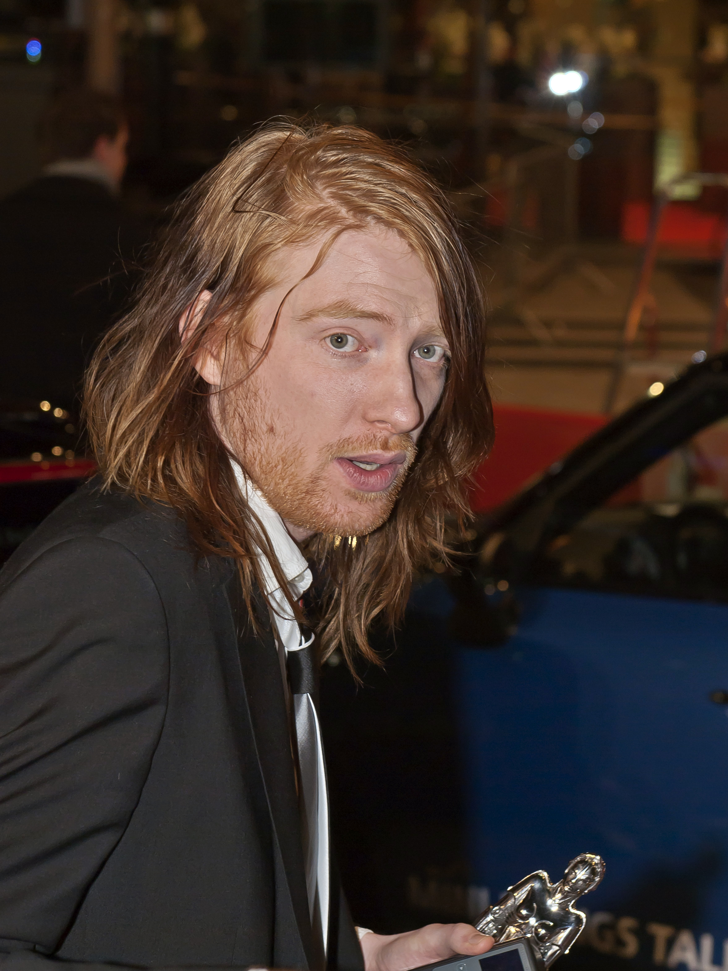 Irish actor Domhnall Gleeson after receiving the Shooting Stars Award 2011.